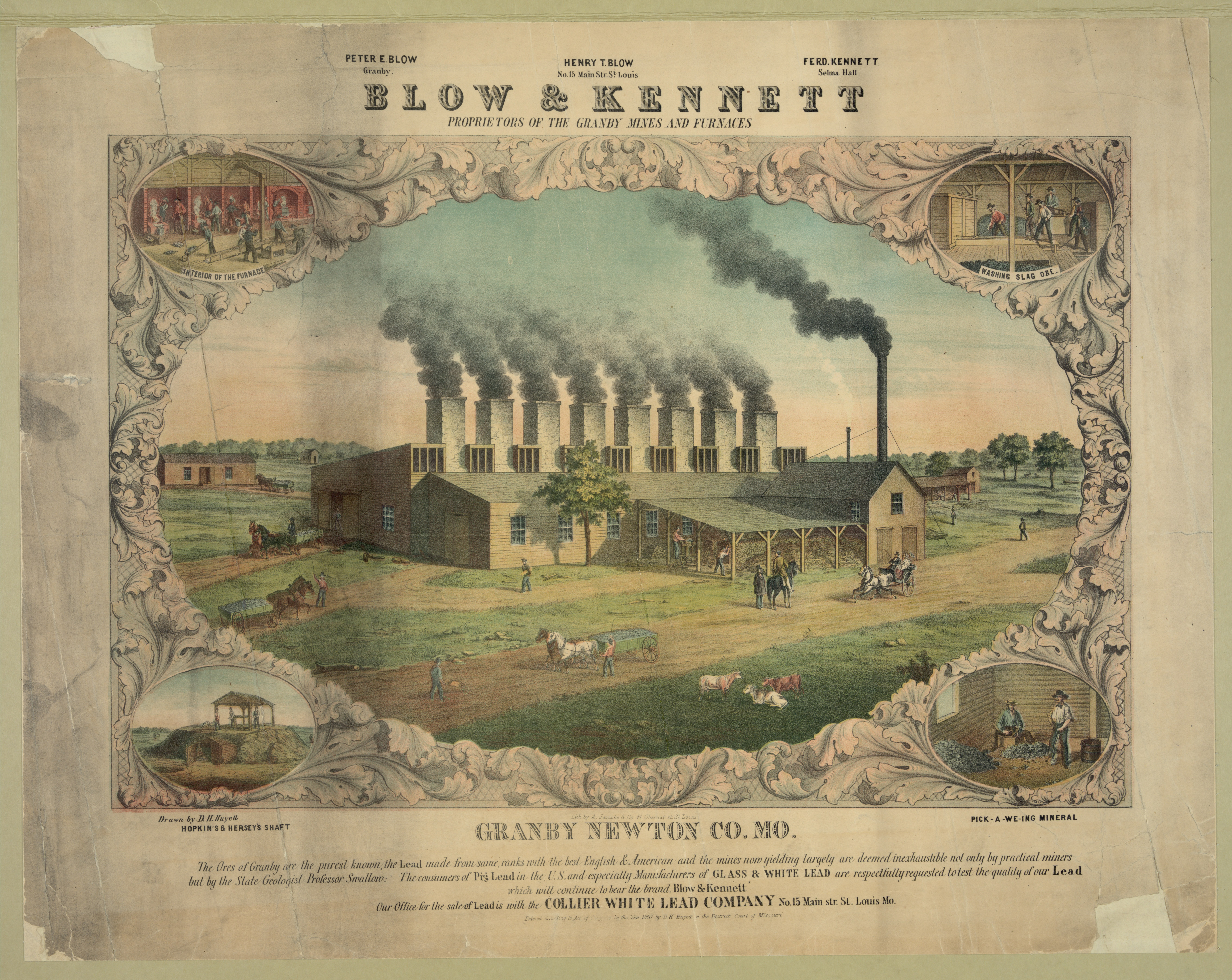 Title: Blow & Kennett...Granby Newton Co., Mo...Collier White Lead Co...c1860. Abstract/medium: 1 print.